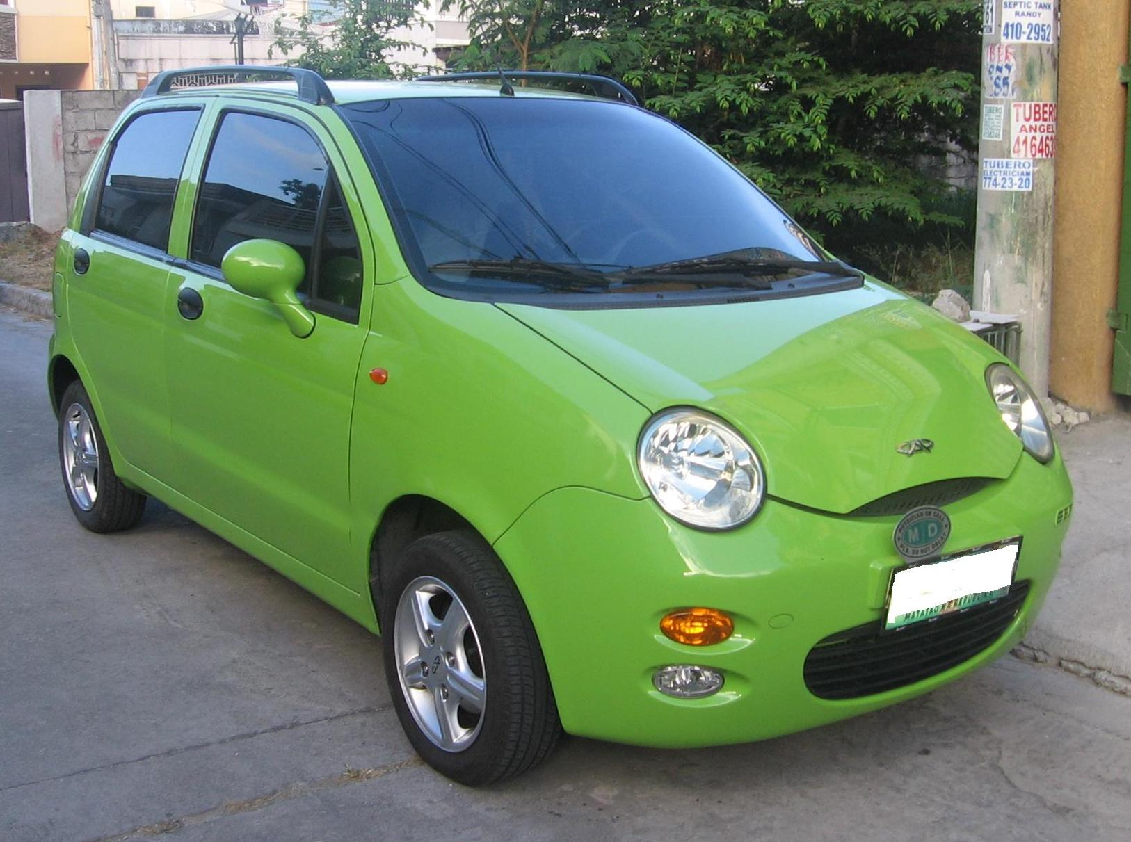 Chery QQ photographed in Cainta Rizal